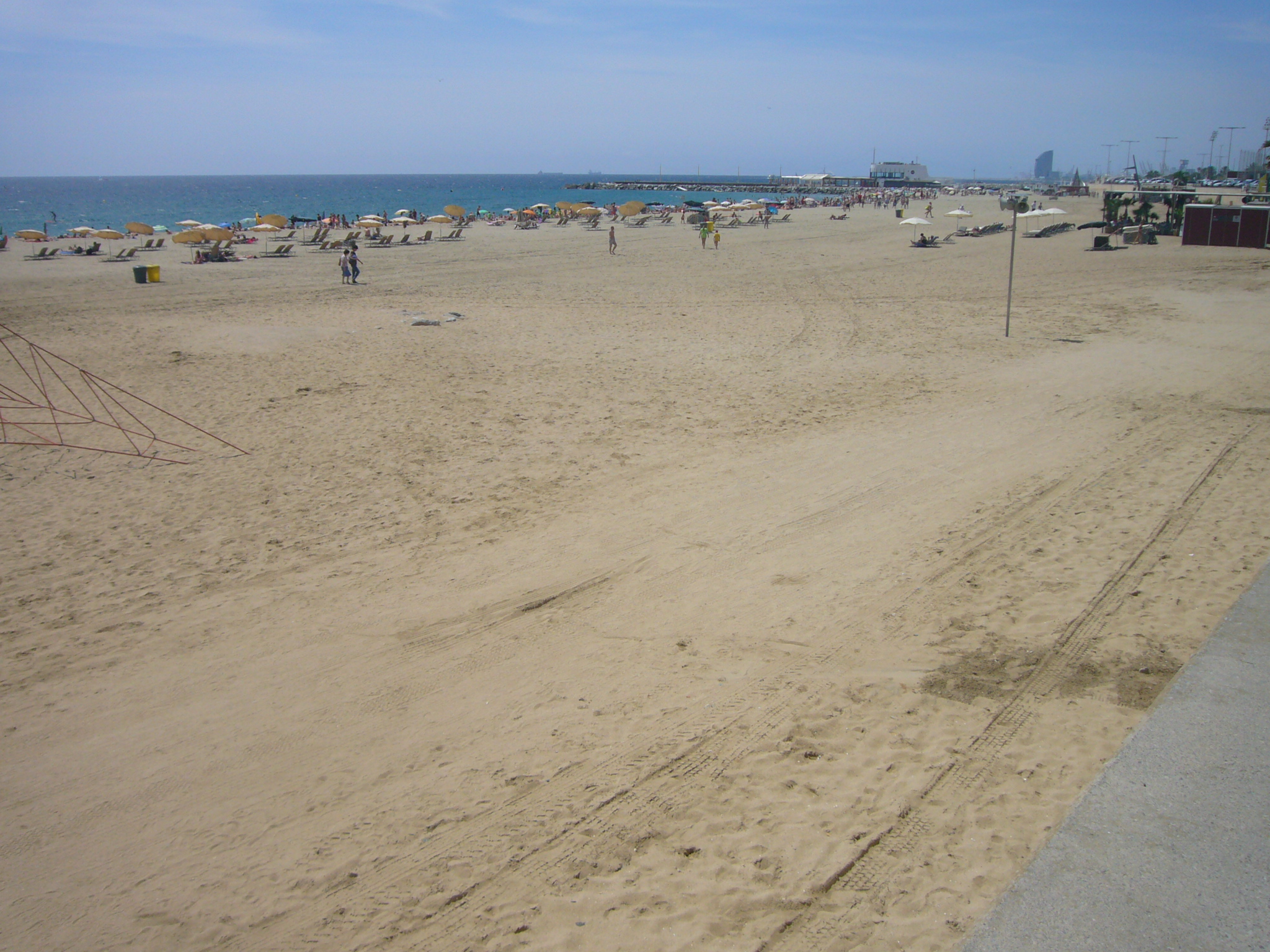 Platja de la Nova Mar Bella - Barcelona